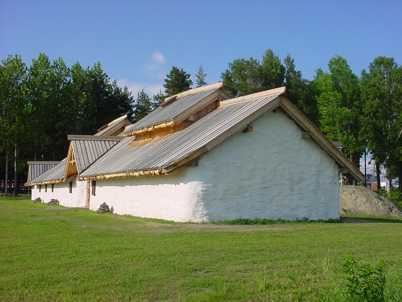 The Iron Age guild hall at Veien, Hønefoss, South Norway